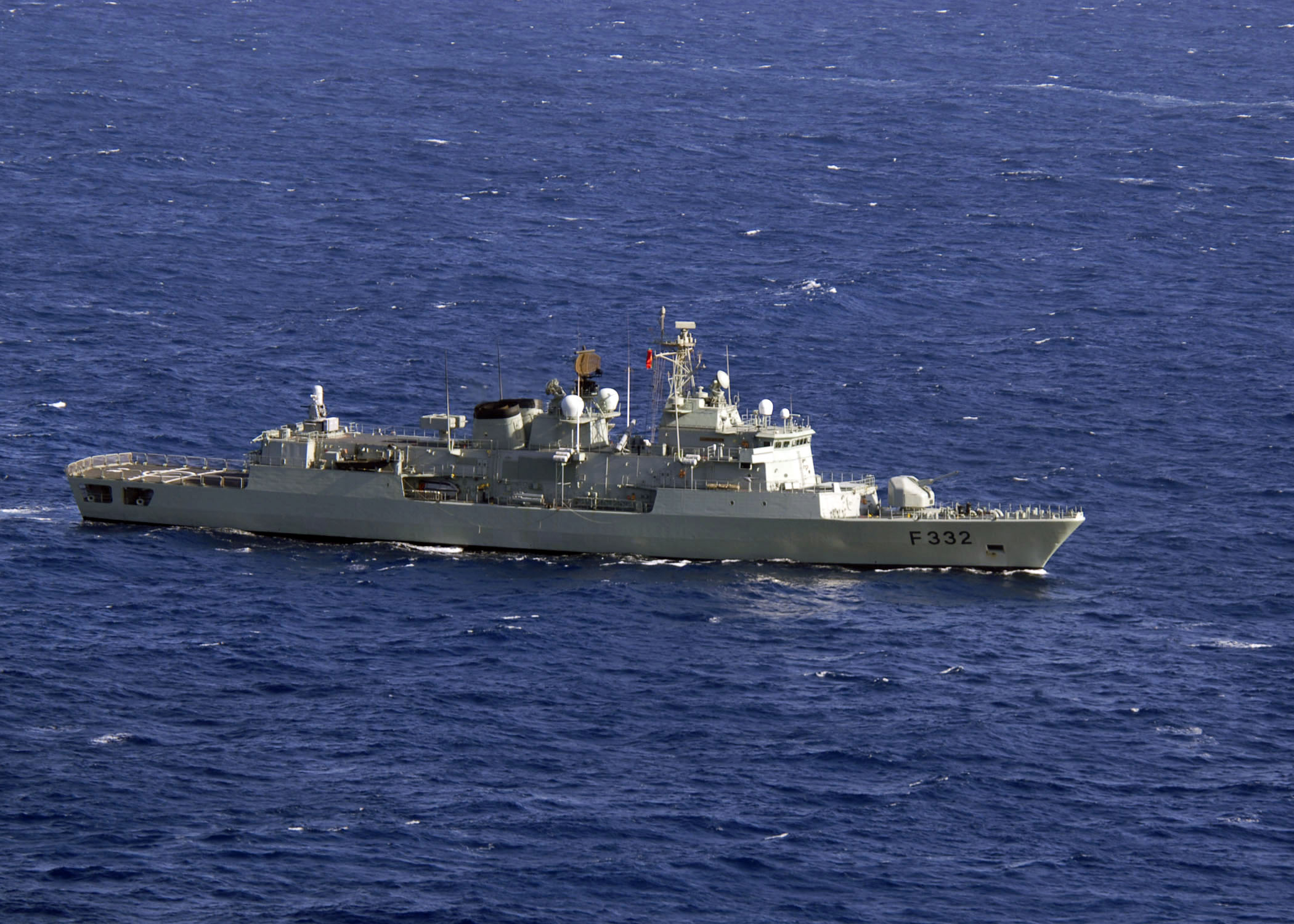 The Portuguese frigate NRP Corte Real (F 332) transits the Mediterranean Sea during Phoenix Express (PE 08). PE-08 is the third annual exercise in a long-term effort to improve regional cooperation and maritime security. The principal aim is to increase interoperability by developing individual and collective maritime proficiencies of participating nations as well as promoting friendship, mutual understanding and cooperation.